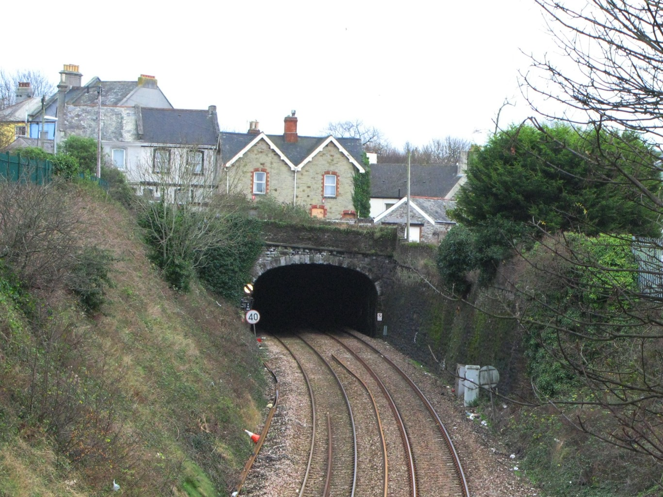 The west portal of Devonport Tunnel, Devon, England. Opened by the Cornwall Railway 4 May 1859.